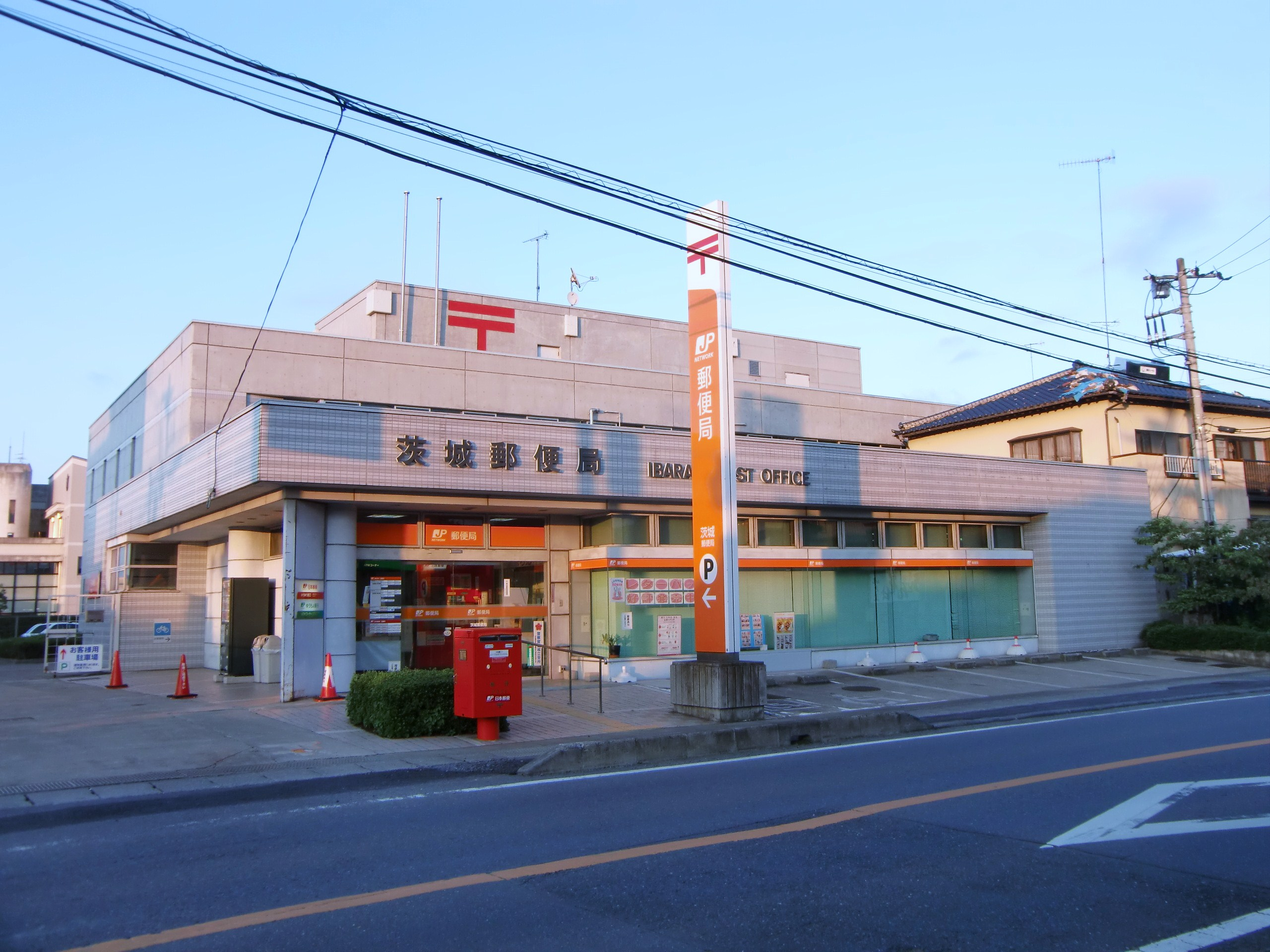 Ibaraki post office, which is in Odutsumi, Ibaraki-town, Higashi-Ibaraki county, Ibaraki-pref, Japan.